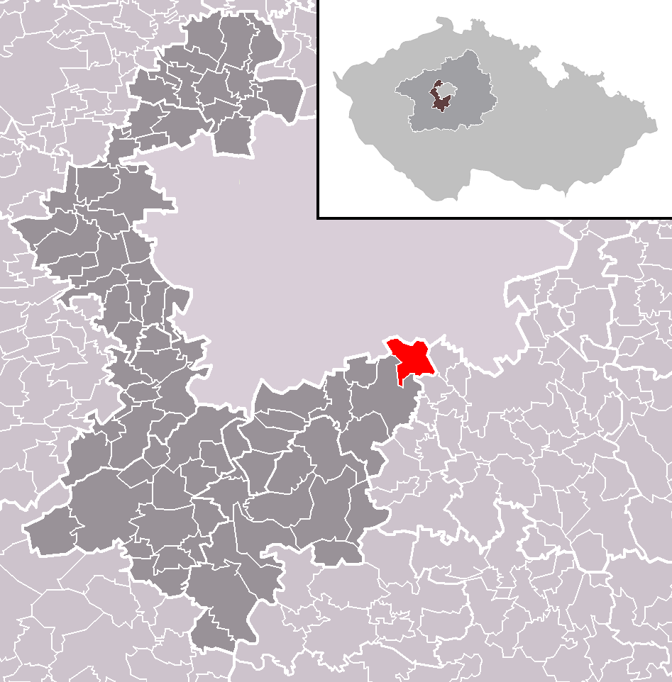 Location of Průhonice municipality within Prague-West District and administrative area of Černošice as a Municipality with Extended Competence.